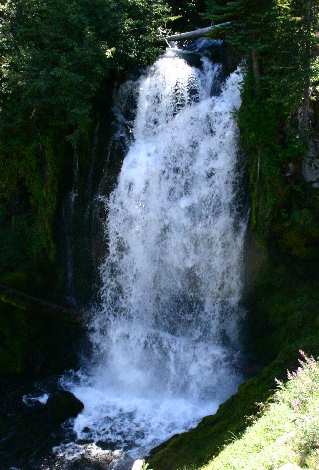 Bridge Creek Falls — in the Bridge Creek Wilderness Area of the Ochoco Mountains, in central Oregon. Within the Ochoco National Forest, in Wheeler County, Oregon.